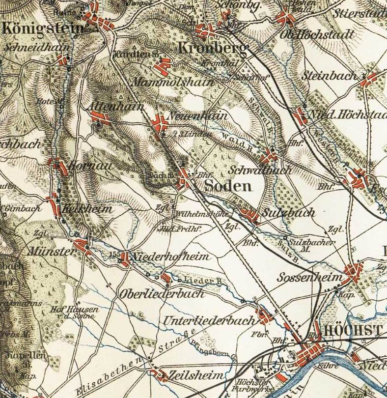 Königstein road, linking Höchst and Königstein, built in early 19th century.